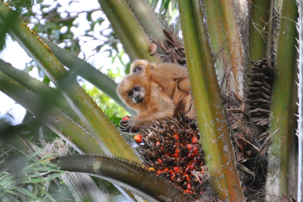 Blond Capuchin (Sapajus flavius) in RPPN Gargaú, Paraíba, Brazil.